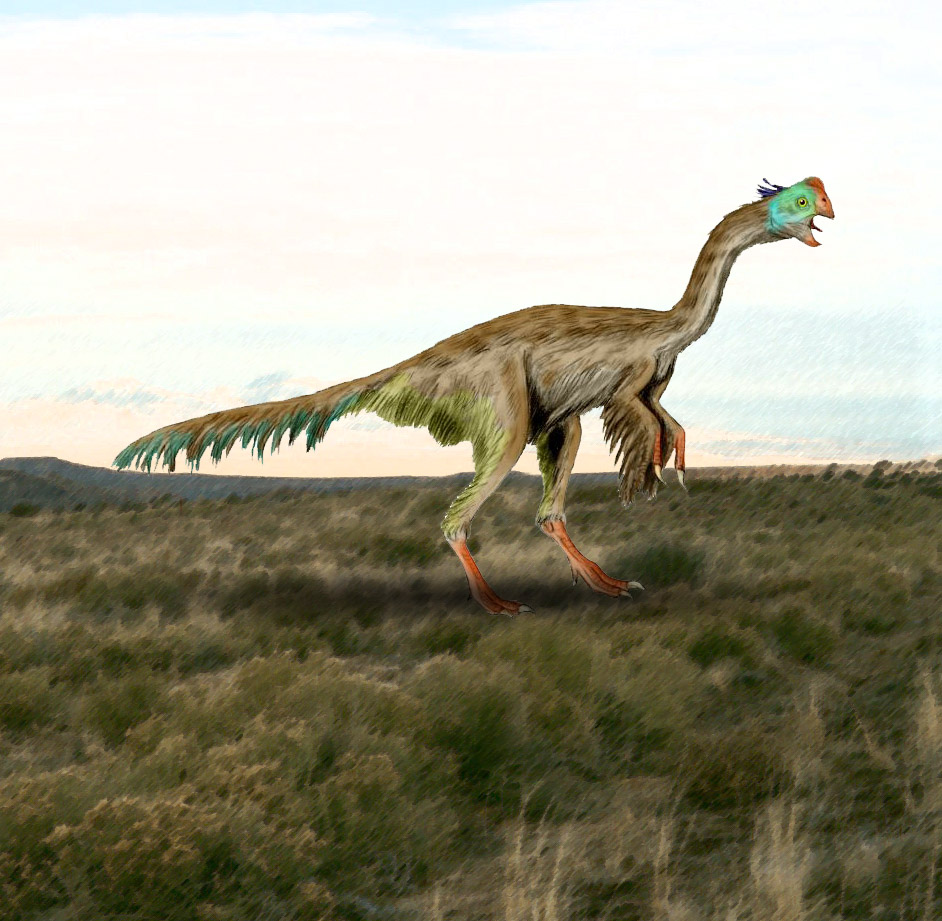 photo composite of :Image:Gigantoraptor BW.jpg by user ArthurWeasley and one of my photos.